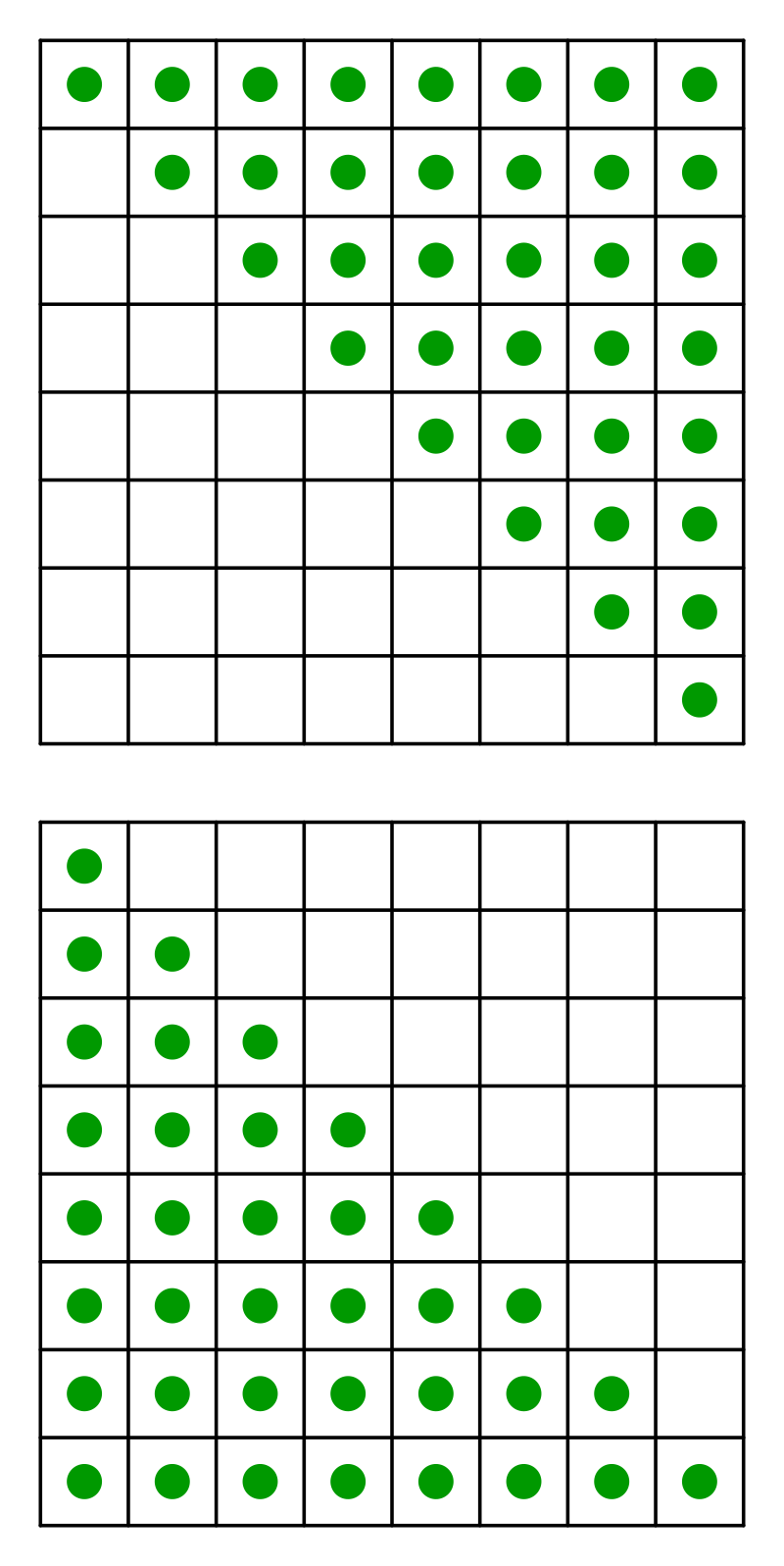 Triangular matrices